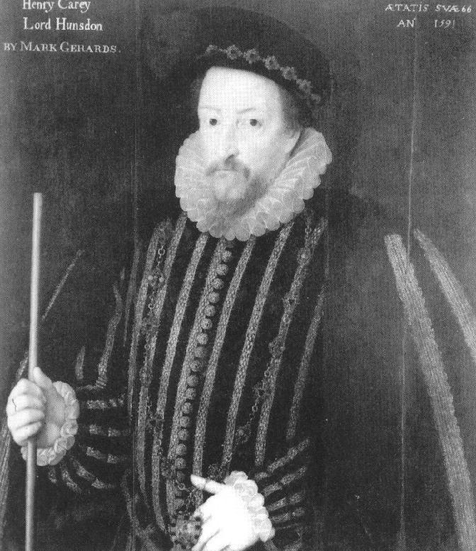 Henry Carey, 1st Baron Hunsdon(1526-1596)